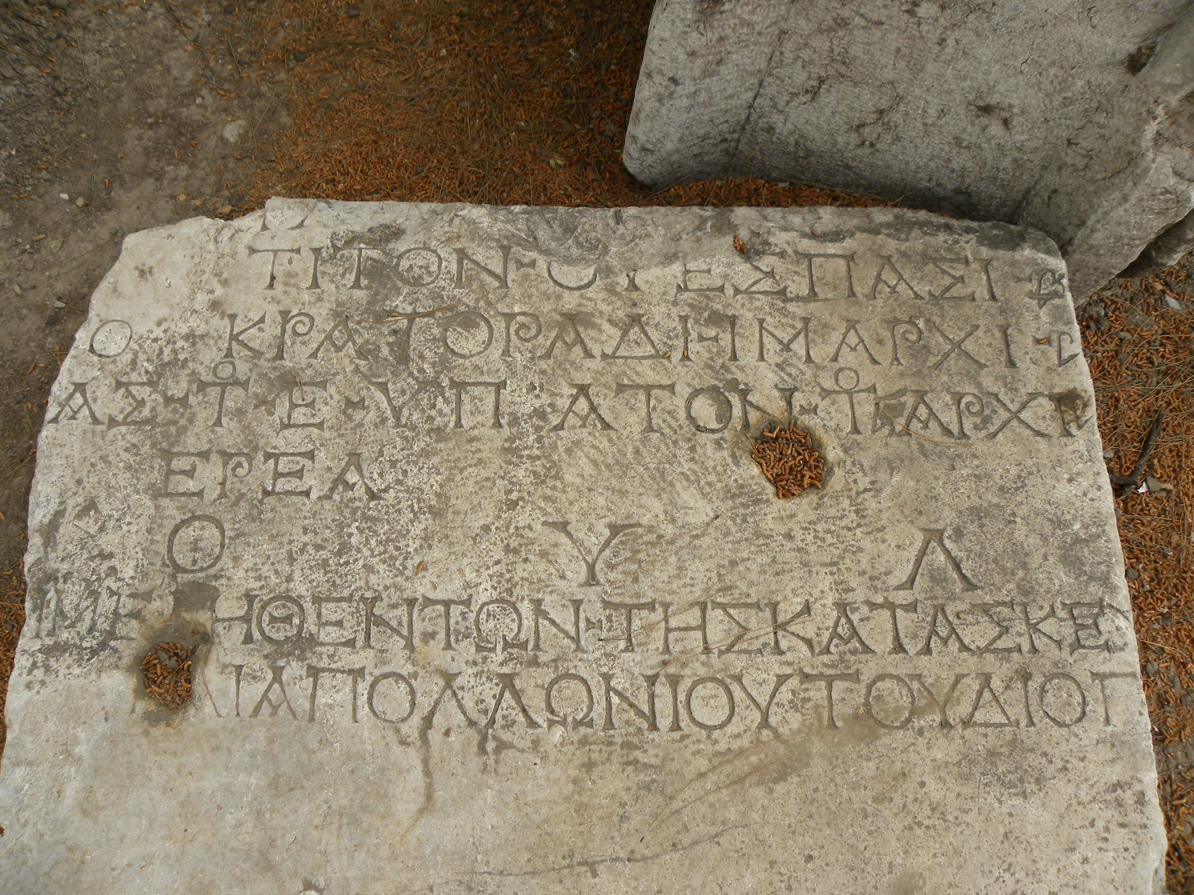 An inscription, part of the surface remains from Byzantine Thyatira, Asia Minor.